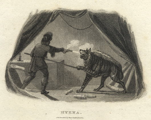 Engraving of a man shooting a striped hyena